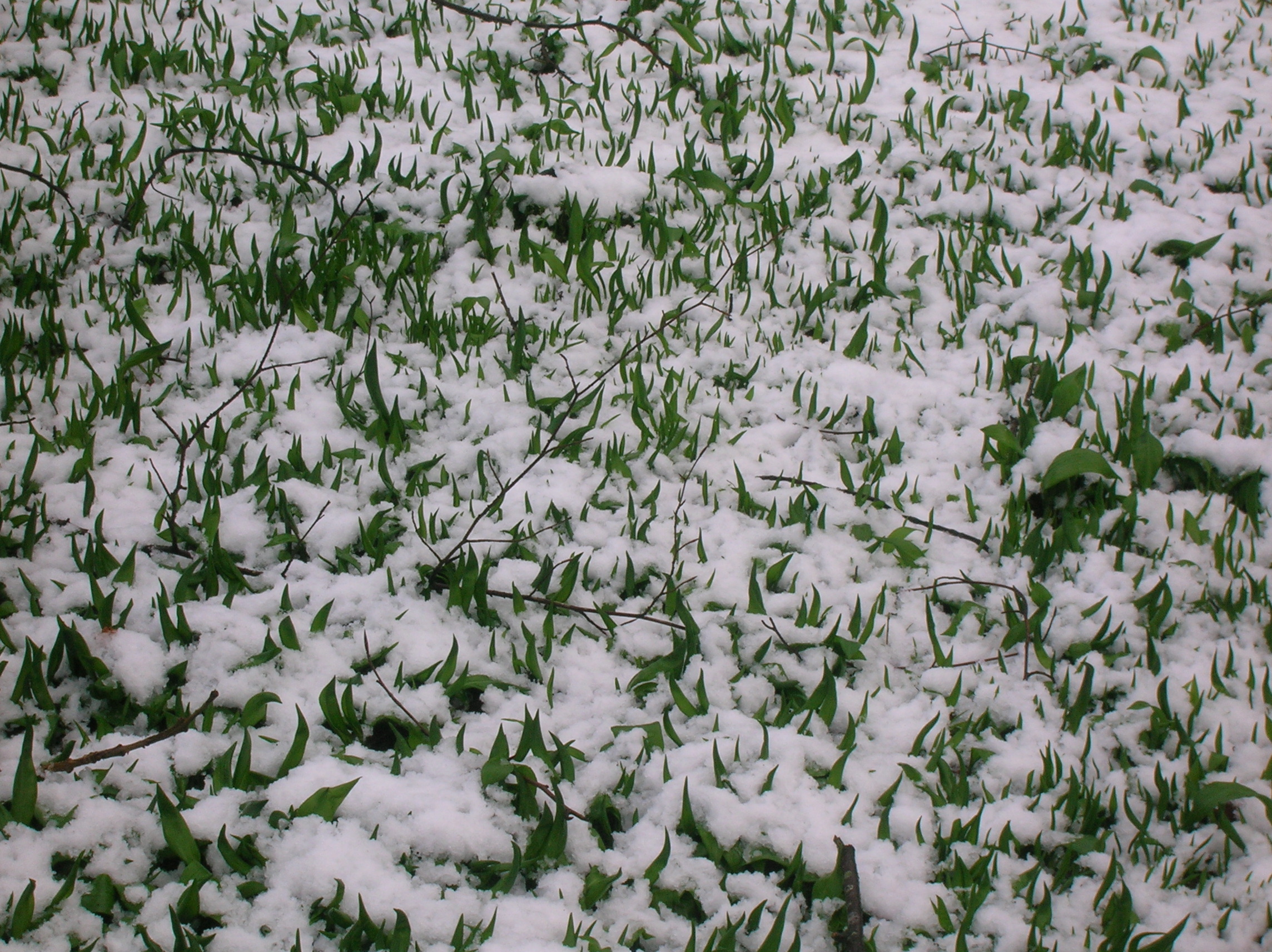 Wild garlic (Allium ursinum) in the snow at Spier's School, North Ayrshire, Scotland.